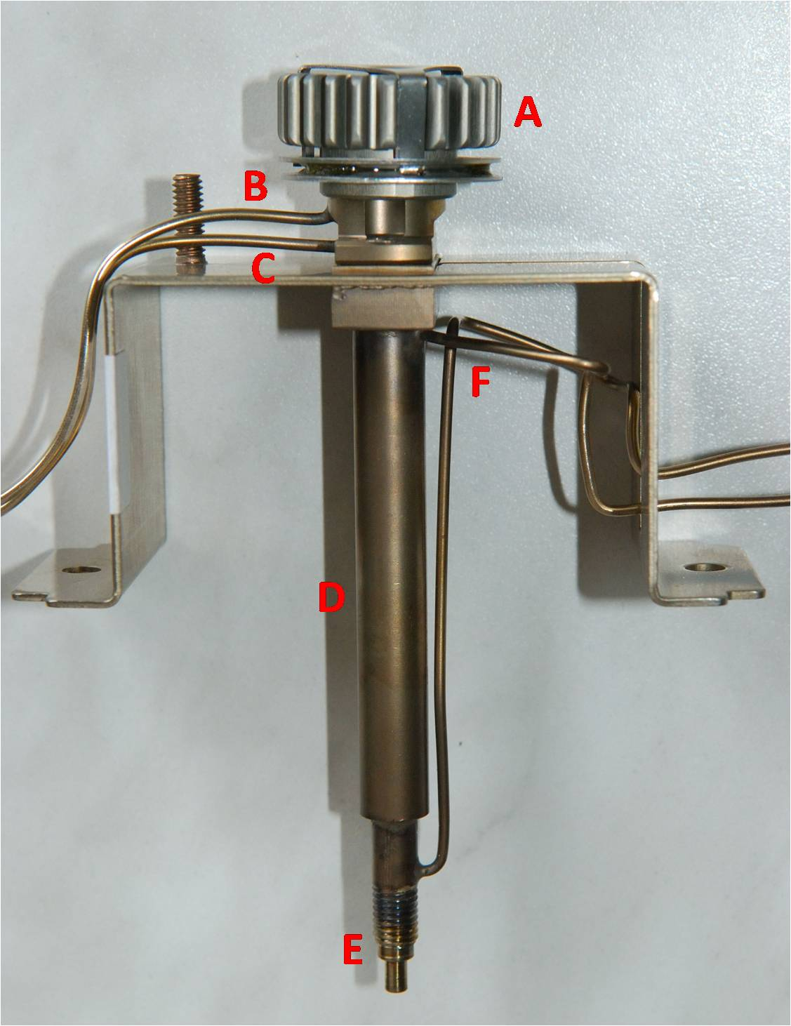 Split-Splitless-Injector in Gas Chromatography: A:Septum Nut, B:Septum Purge, C:Carrier Gas Inlet, D:Injector Body, E:Connection for Capillary Column, F:Split Outlets (Dual Split Design)